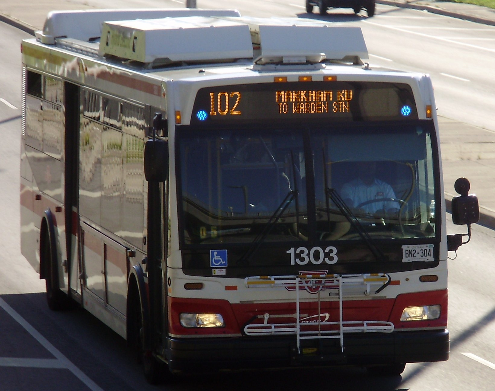 The Toronto Transit Commission's bus #1303, a Daimler Buses North America/Orion Bus Industries Orion 07.501 "VII" NG HEV, travels west along St. Clair Avenue East on the 102 Markham Road route in Toronto, Ontario, Canada.